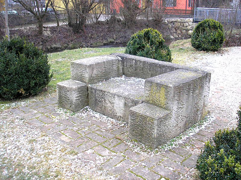 Mering (Landkreis Aichach-Friedberg, Bavaria, Germany). Medieval (?) stone seat (found 1968 at St. Afra) near the castle